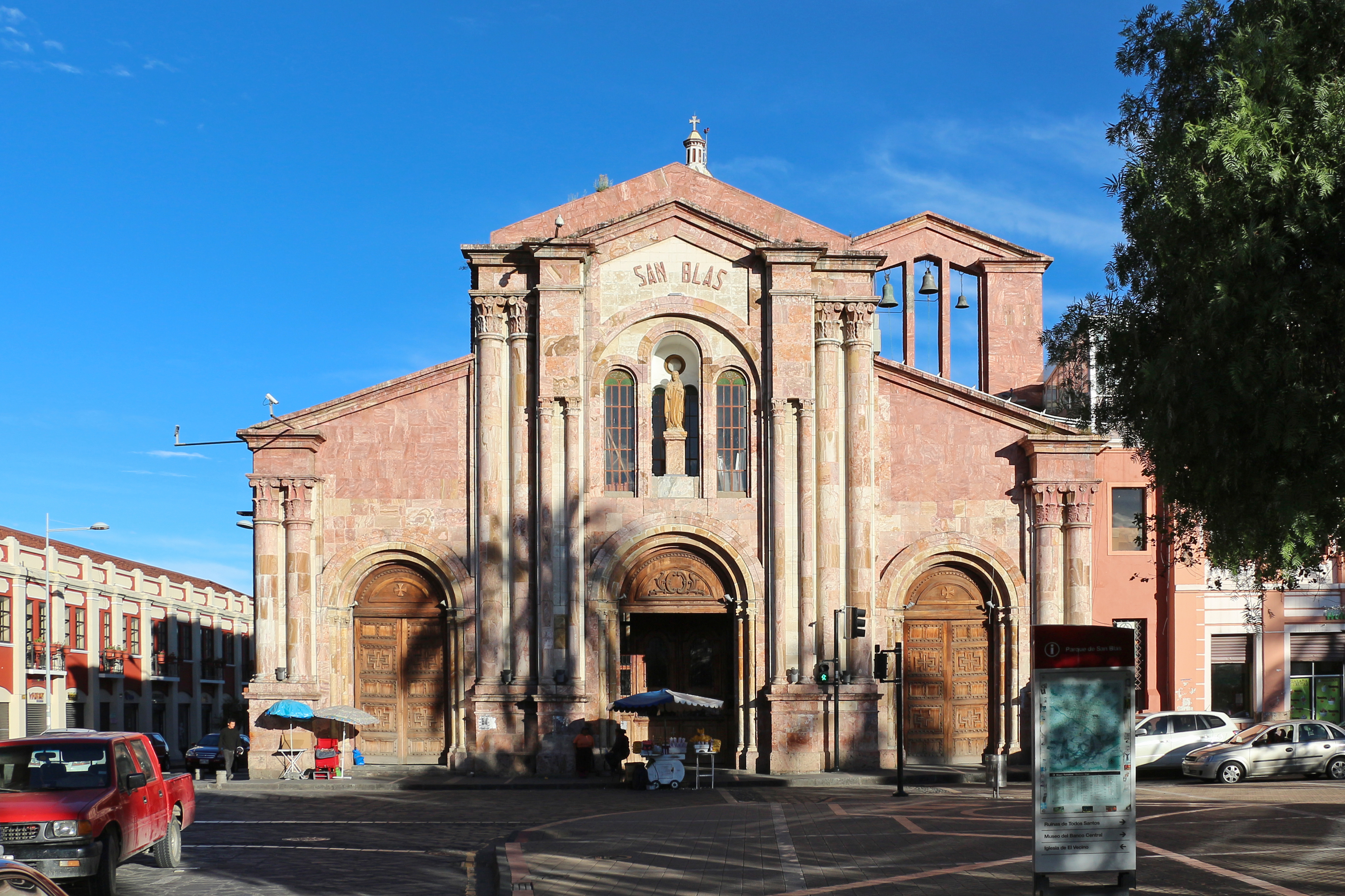 San Blas Church, Cuenca, Ecuador